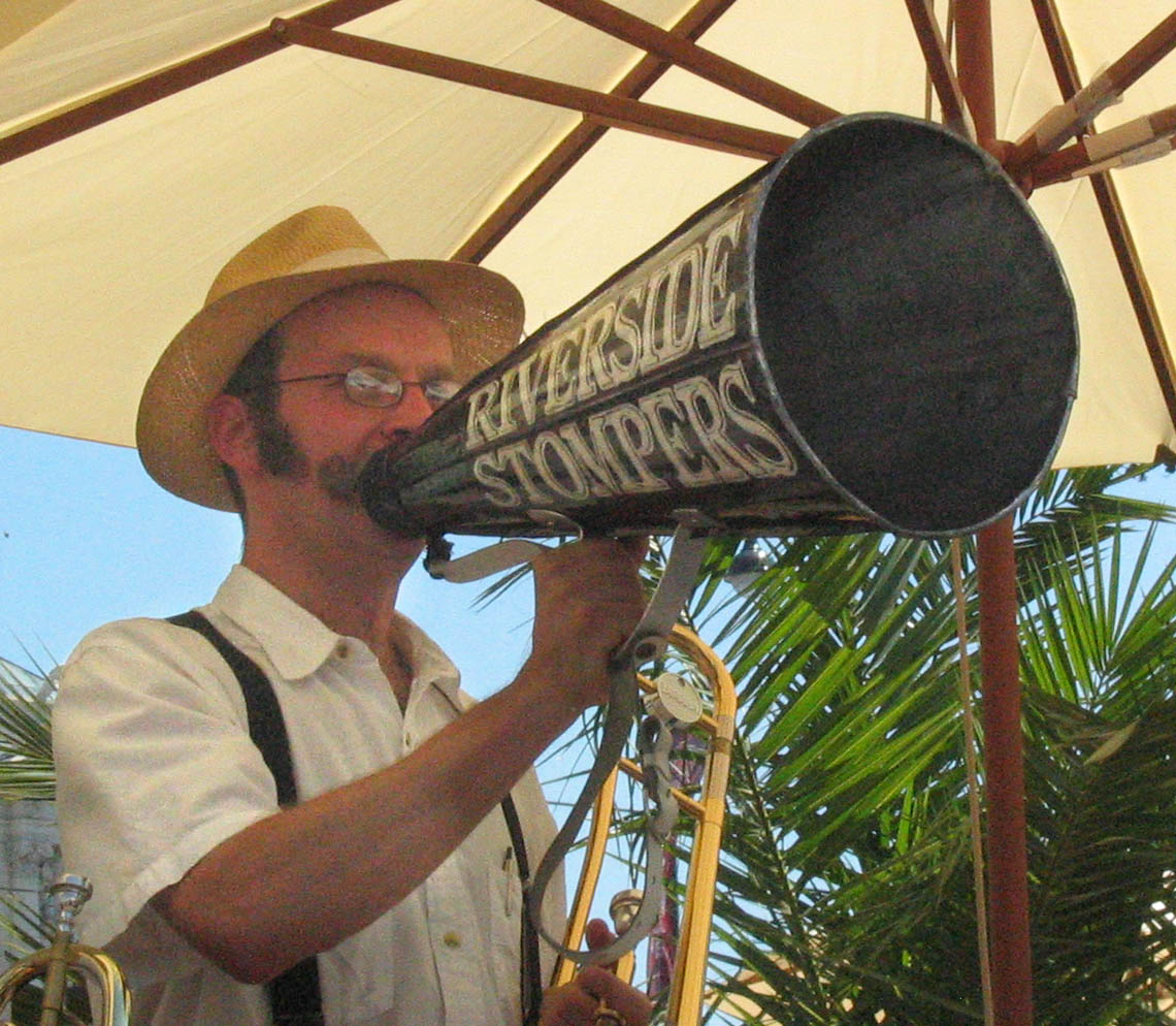 Members of Austrian jazz band Riverside Stompers (playing at the Vienna Rathausplatz.)